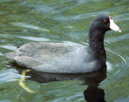 American Coot public domain from NOAA